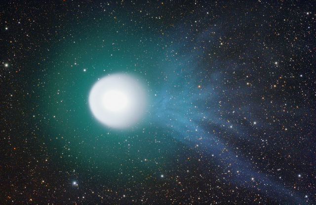 Comet 17P/Holmes with the ion tail